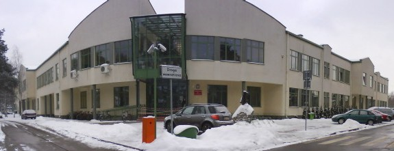 Middle school (gimnazjum) no. 1 in Józefów, Otwock County, Poland.